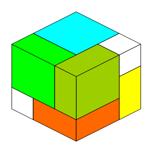 It shows the Slothouber-Graatsma Cube